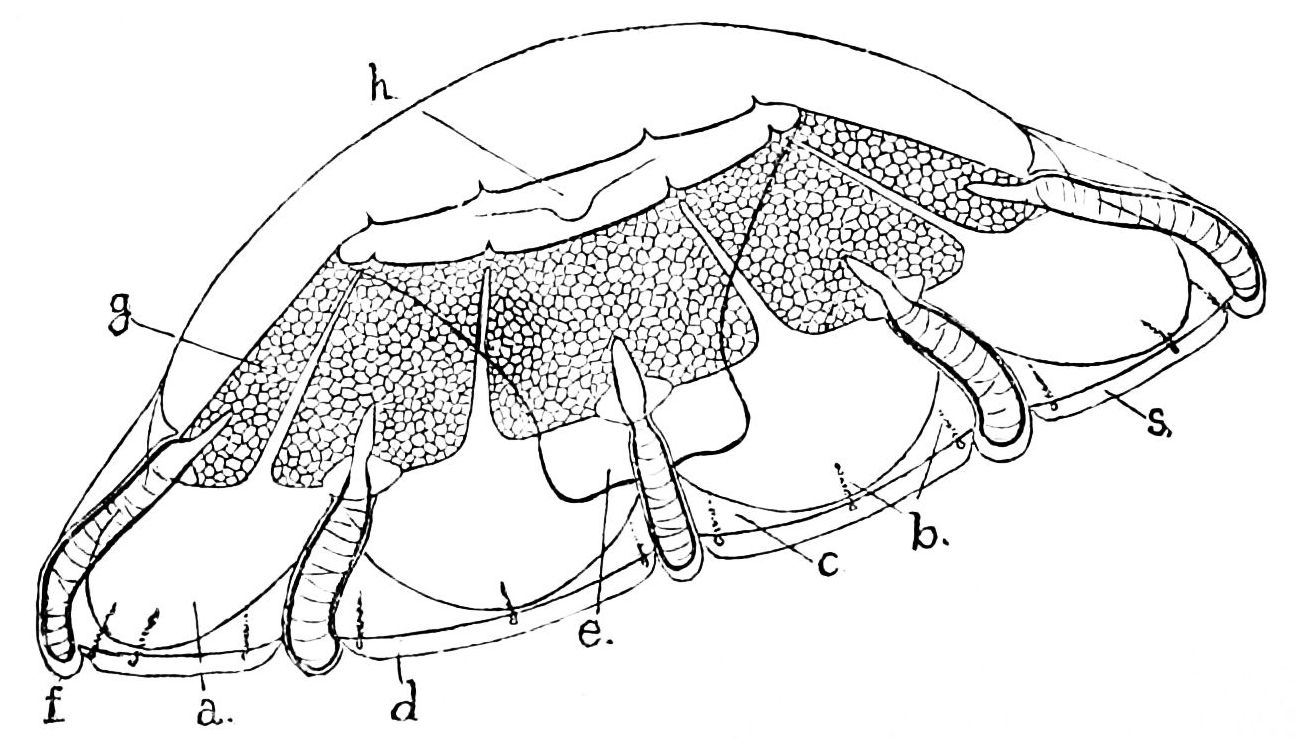 Jelly fish Cunocantha octonaria (=Cunina octonaria)